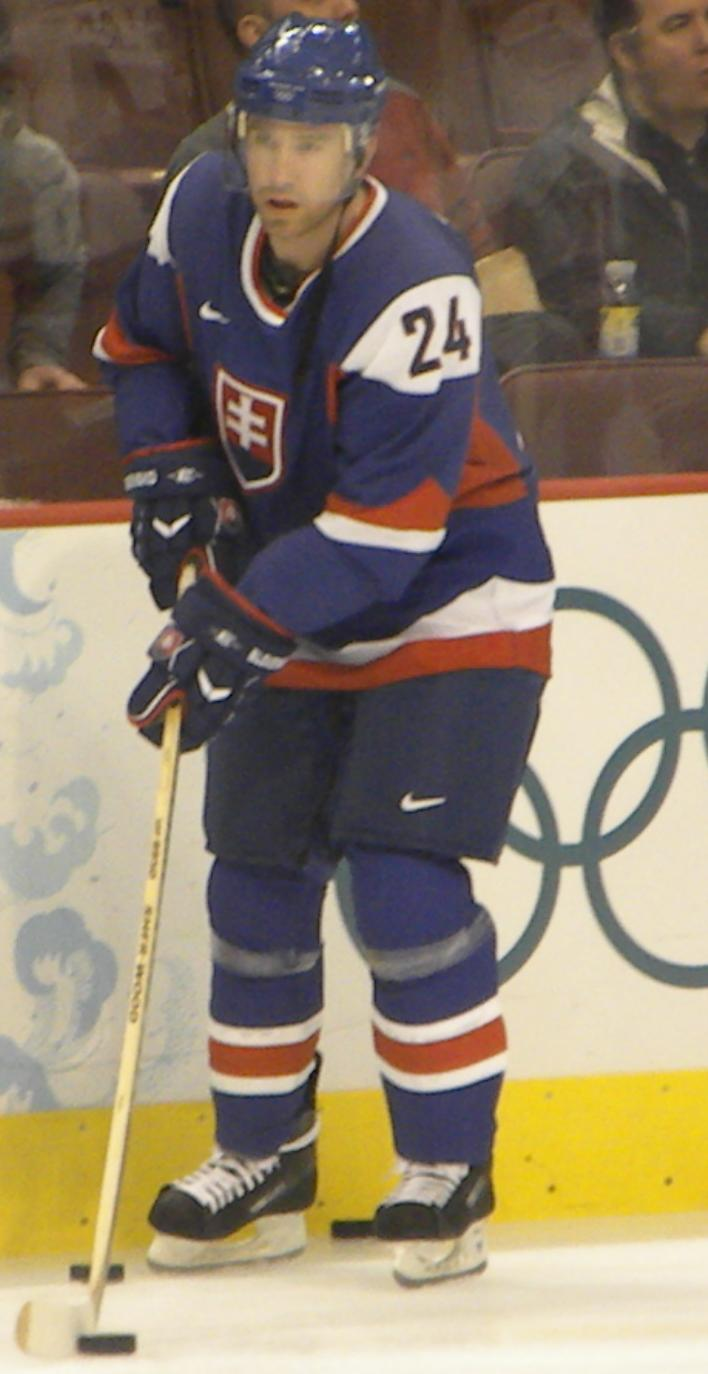 Zigmund Palffy of the Slovakia men's national ice hockey team, warming up before a match against the Czech Republic men's national ice hockey team in the 2010 Winter Olympics at Canada Hockey Place on February 17, 2010.